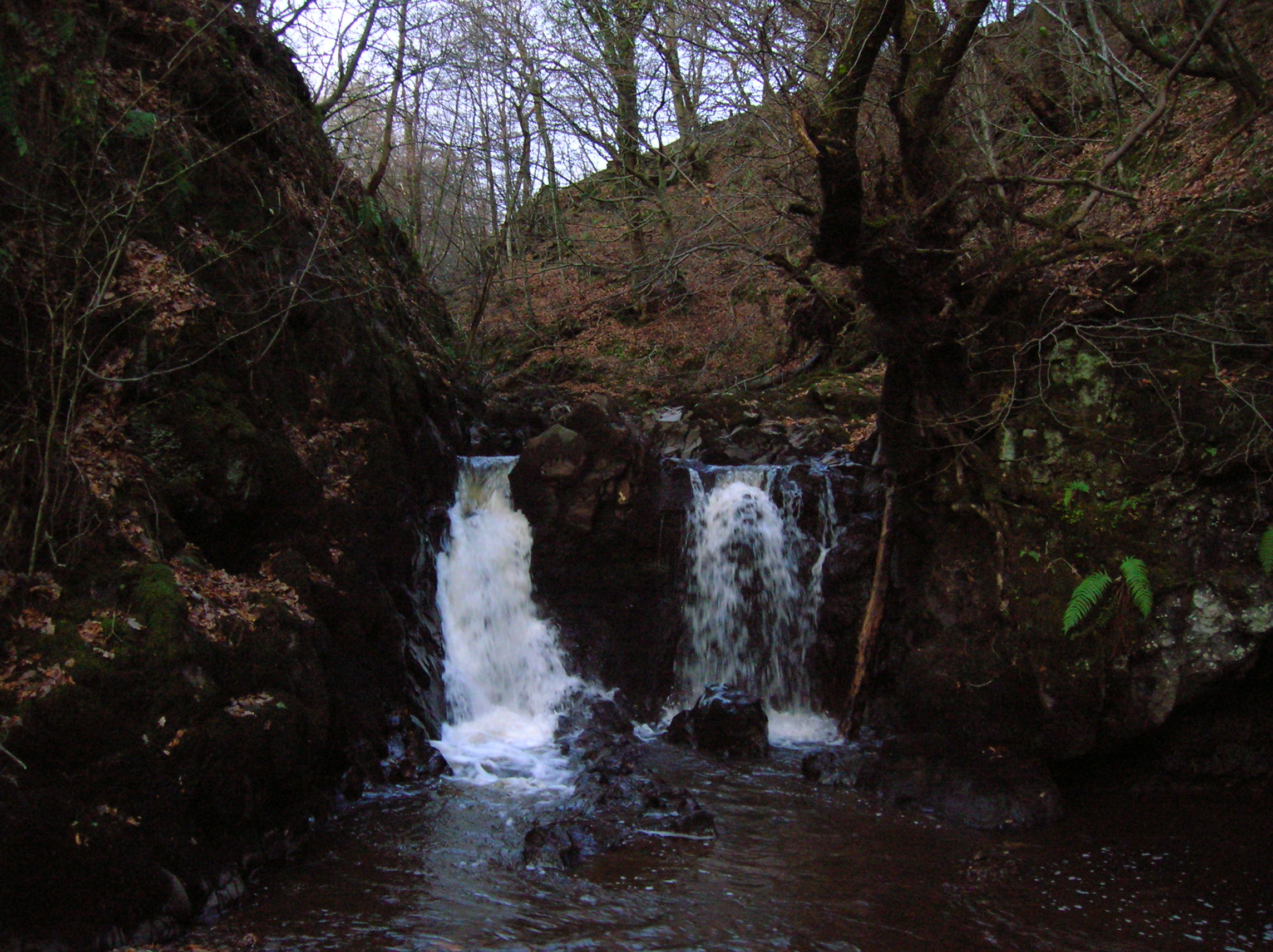 Waterfall on the Maich Water near Ladyland, Kilbirnie, North Ayrshire, Scotland